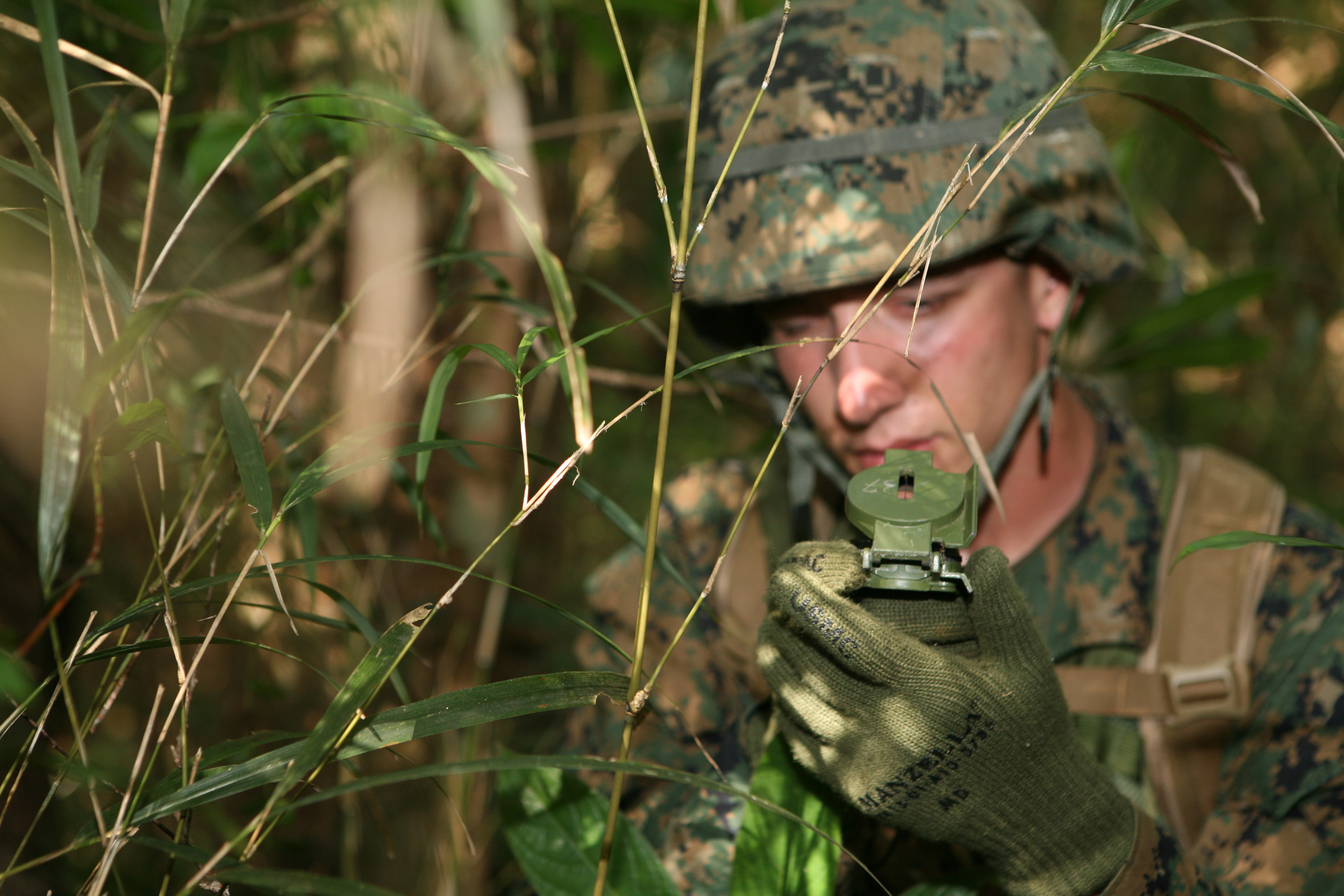 U.S. Marine Corps Lance Cpl. Nathan Sorrentino, with the Provost Marshal's Office, navigates for his patrol at the Jungle Warfare Training Center at Camp Gonsalves, Okinawa, Japan, on Aug. 19, 2009. The Jungle Warfare Training Center shows service members how to become effective war fighters in a jungle environment by teaching them land navigation, small unit leadership, patrolling and obstacle maneuvering.